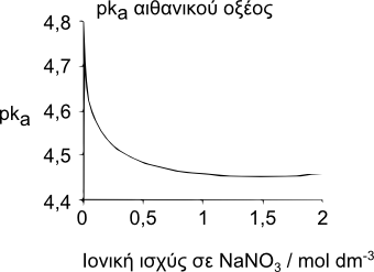 Variation of pKa of acetic acid with ionic strength